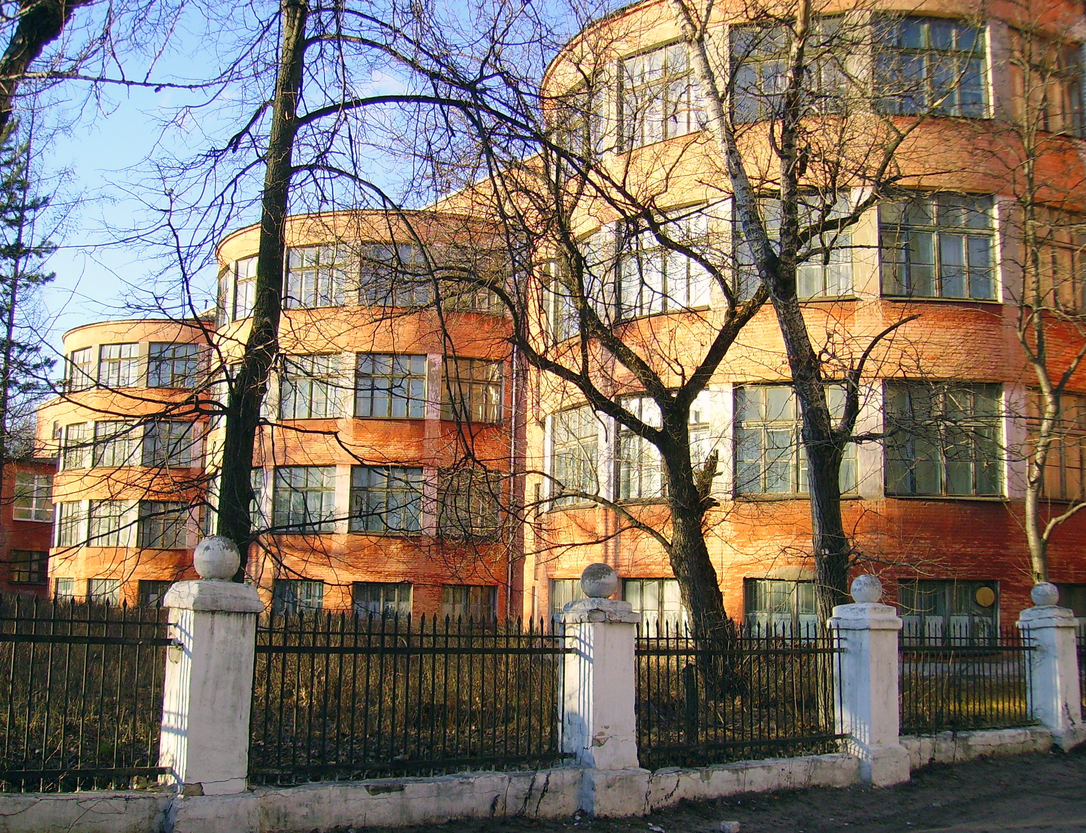 Chemical Tecnicum named Red Army